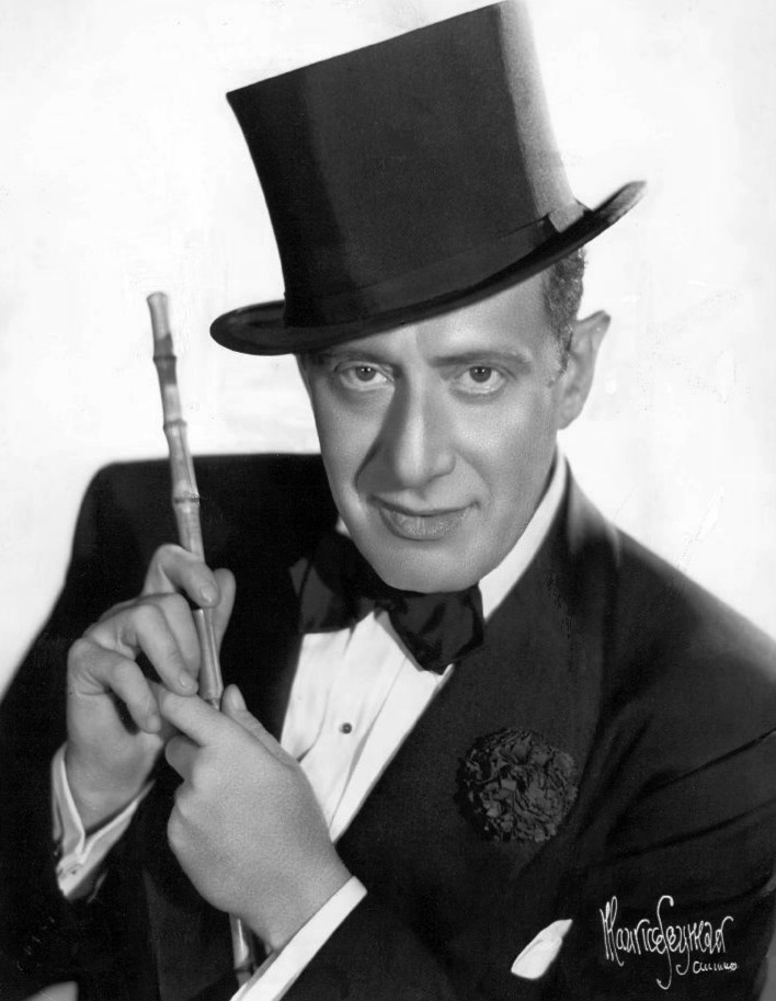 Photo of vocalist Benny Fields.